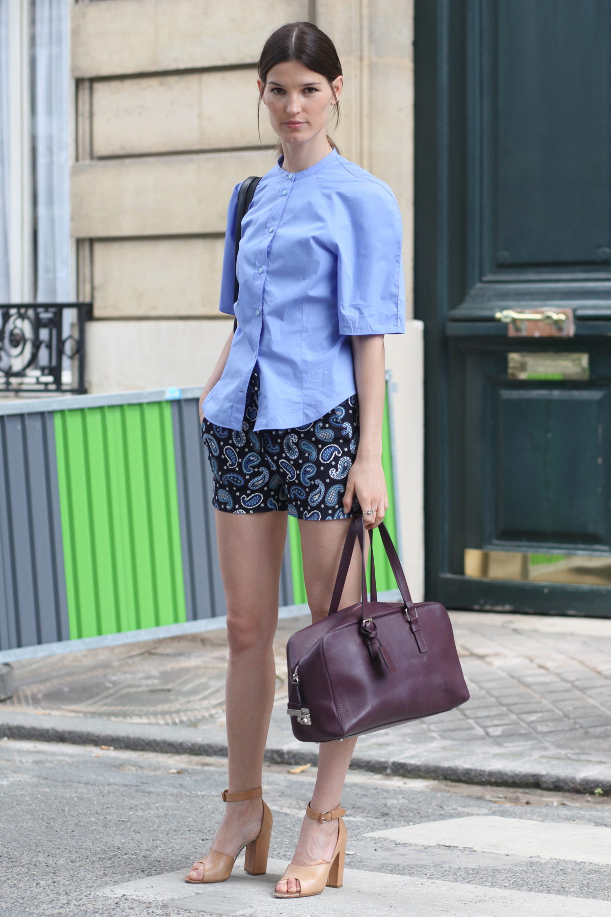 Hanneli Mustaparta during Paris Haute Couture Shows 2012. Photos by Ed Kavishe.